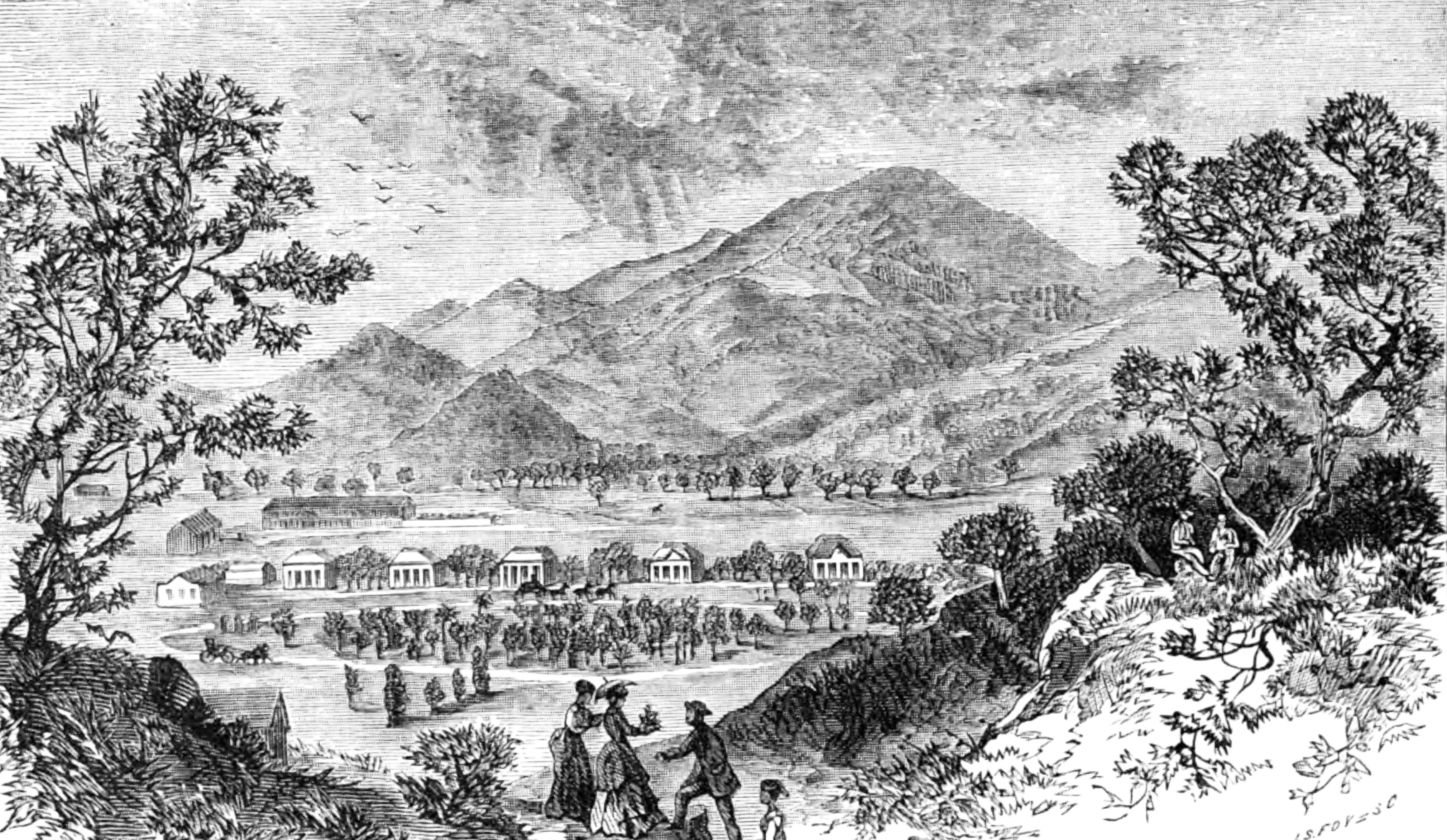 A La California (1873): Description and travel; Social life and customs written by Colonel Albert S. Evans. The number is the page number in the book. The words are the captions with each image. Follow the link to the full book.